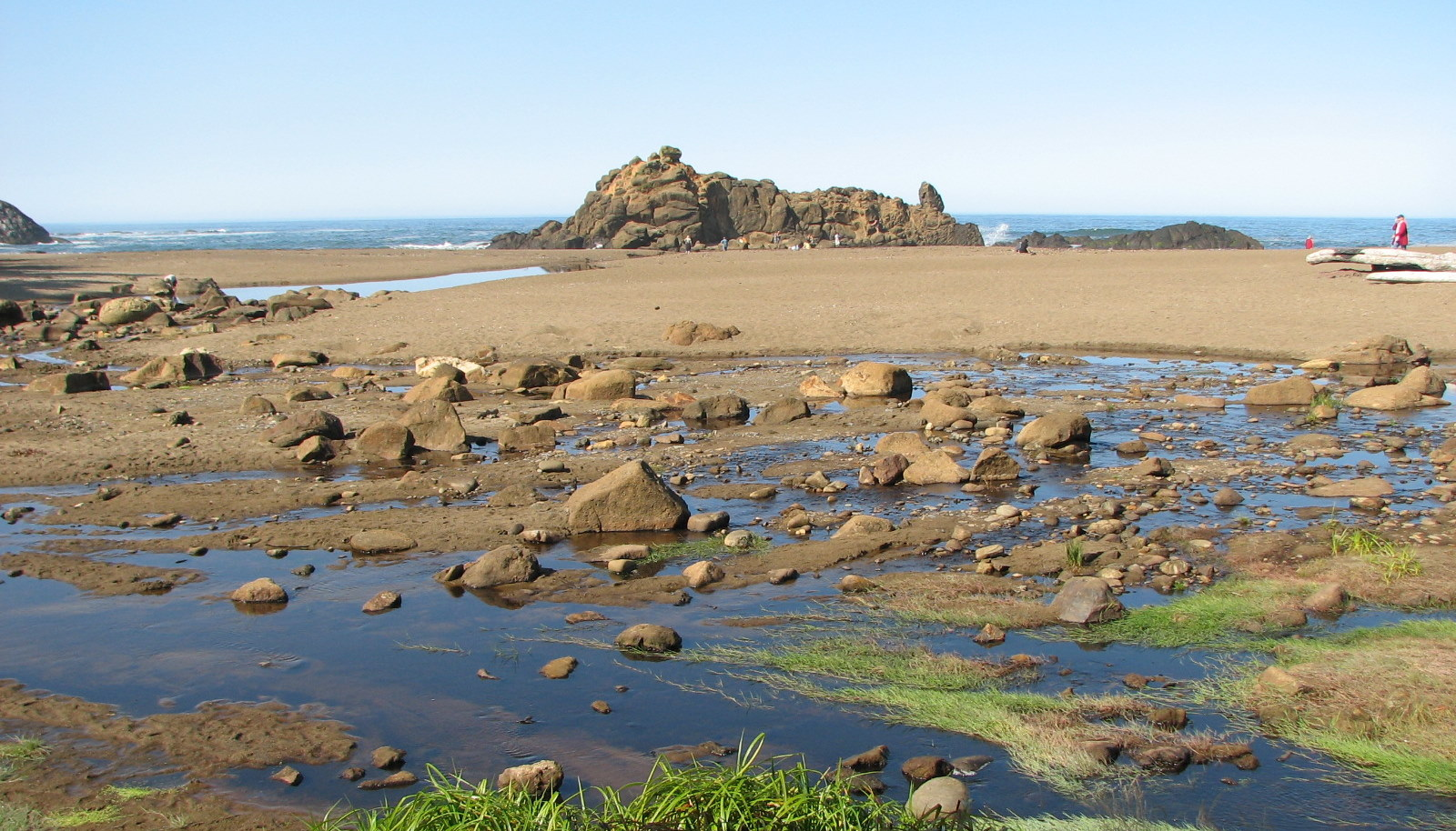 The Pacific Ocean at Fogarty Creek State Recreation Area, near Depoe Bay, Oregon, United States.